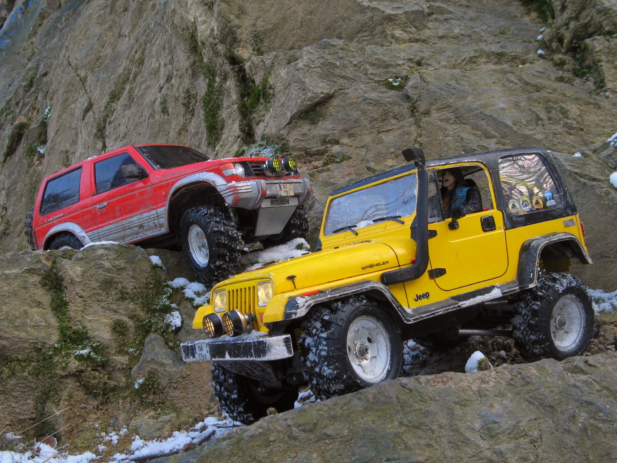 Jeep Wrangler YJ, chassis Tamiya CC-01, scale 1:10 and Mitsubishi Pajero, chassis Tamiya CC-01, scale 1:10